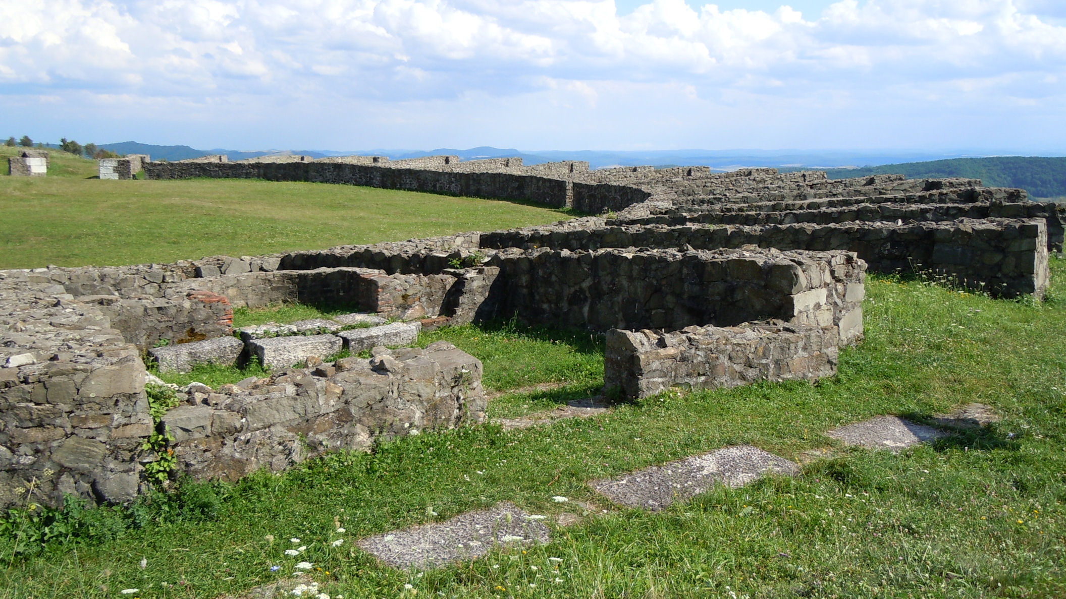 Nemesis' Temple of Porolissum 01